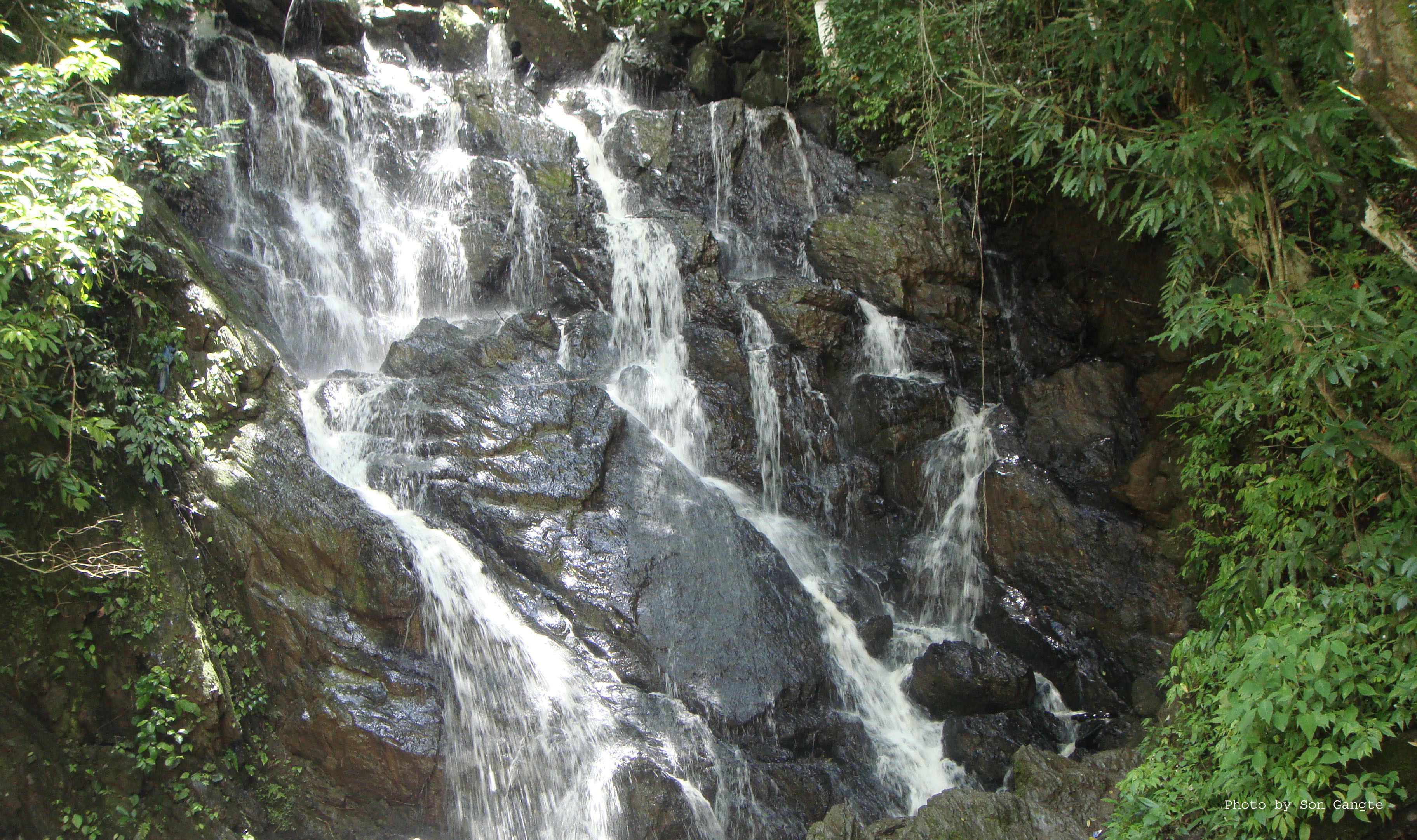 A small waterfall in Churachandpur District of Manipur.